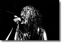 Roger Andreassen playing live with Life... But How To Live It?